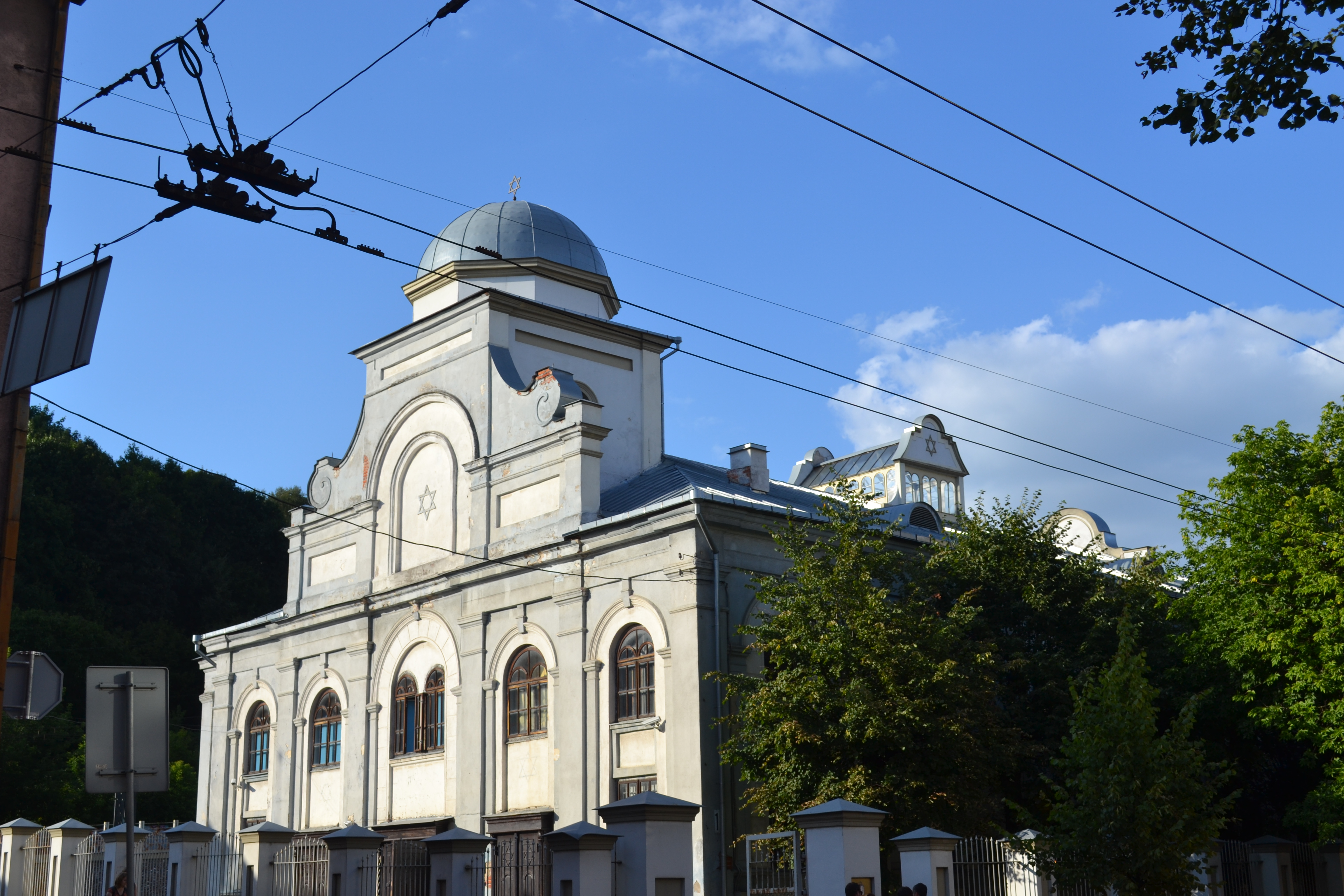 Synagoga Kaunas front view